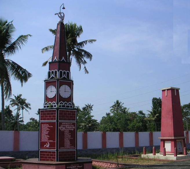 Communist martyrs column, Allepey. Photo: Soman